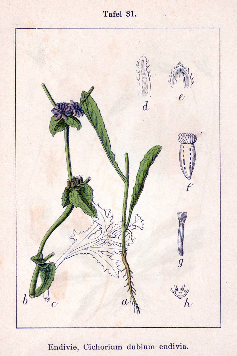 Cichorium endivia L. ?Unresolved name: Cichorium dubium E.H.L.Krause Original Description "Endivie", Cichorium dubium endivia